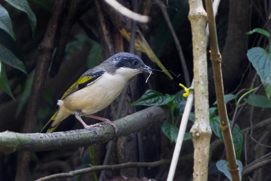 The species Himalayan Shrike-babbler (Female) had been photographed from Neora Valley National Park in West Bengal, India on 14.04.2016.